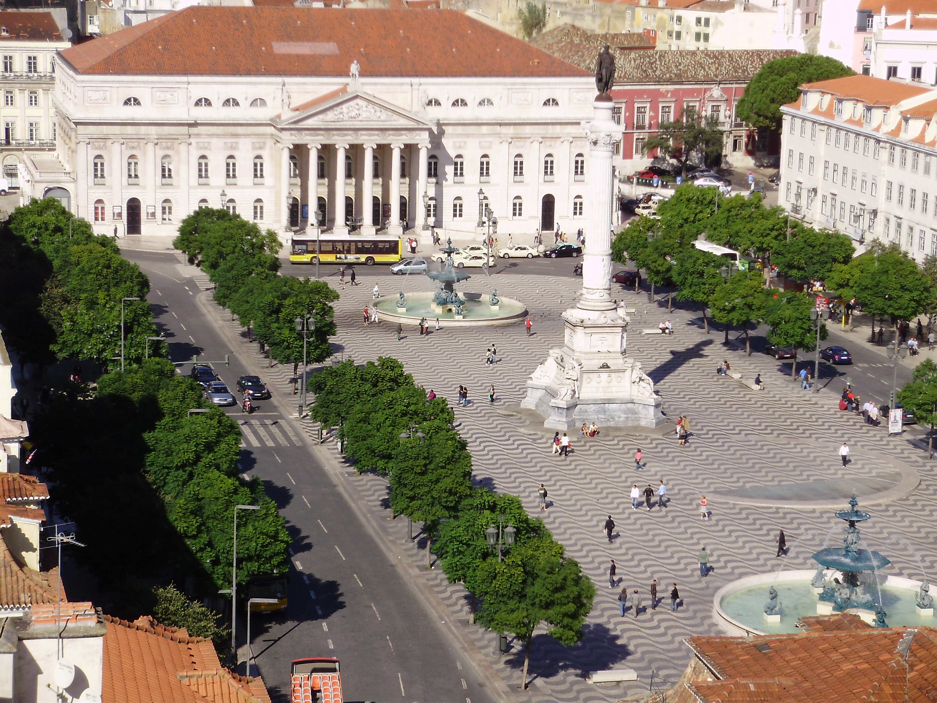 national theatre